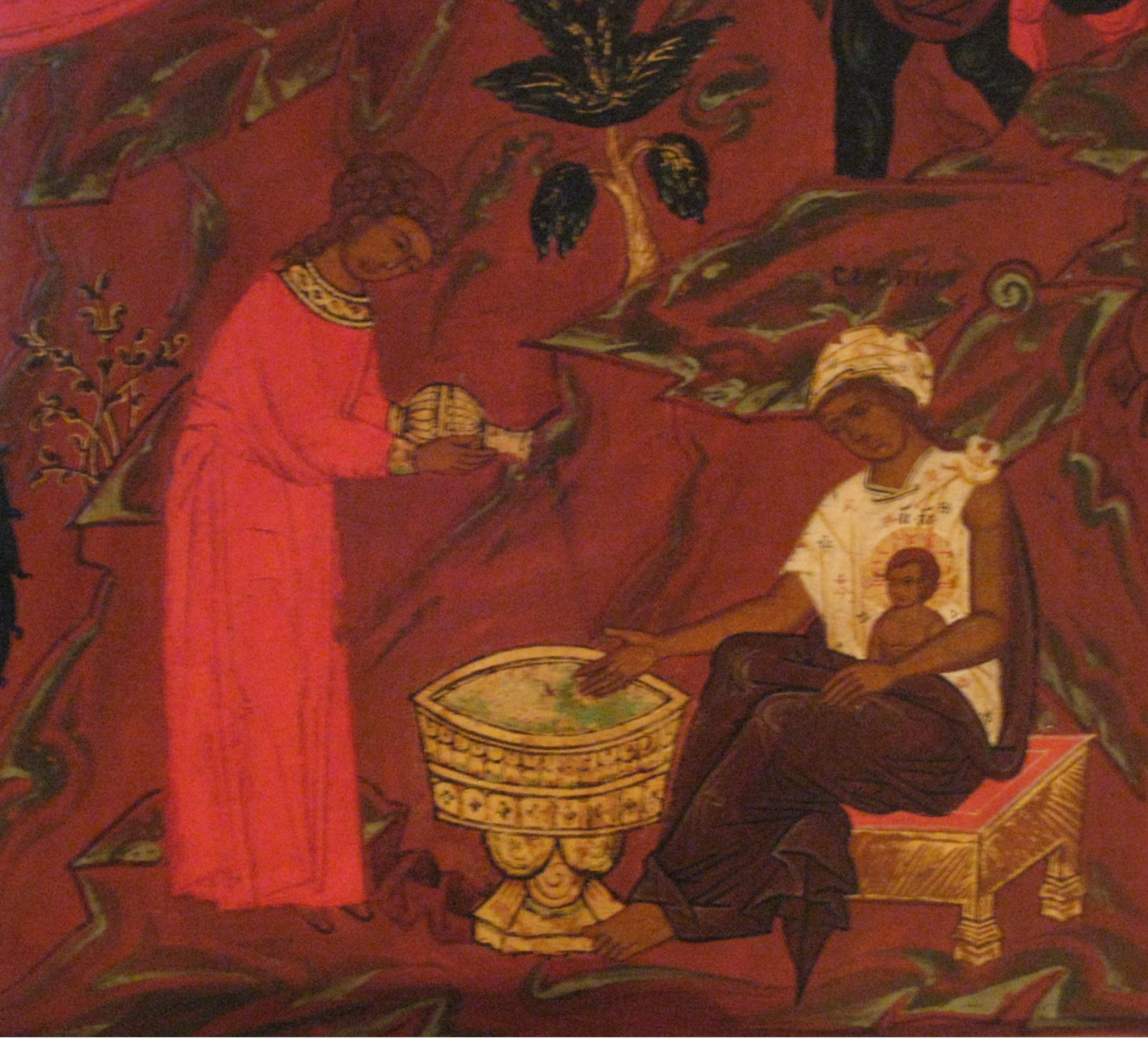 Nativity icon. Pskov school. Detail with sage-femme named Salome, bathing Christ-child (the prototype of Baptism) Museum of Pskov